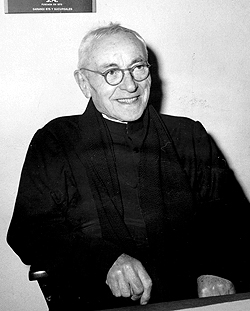 Photograph owned by the provincial headquarters of the Brothers of the Holy Family in Uruguay.